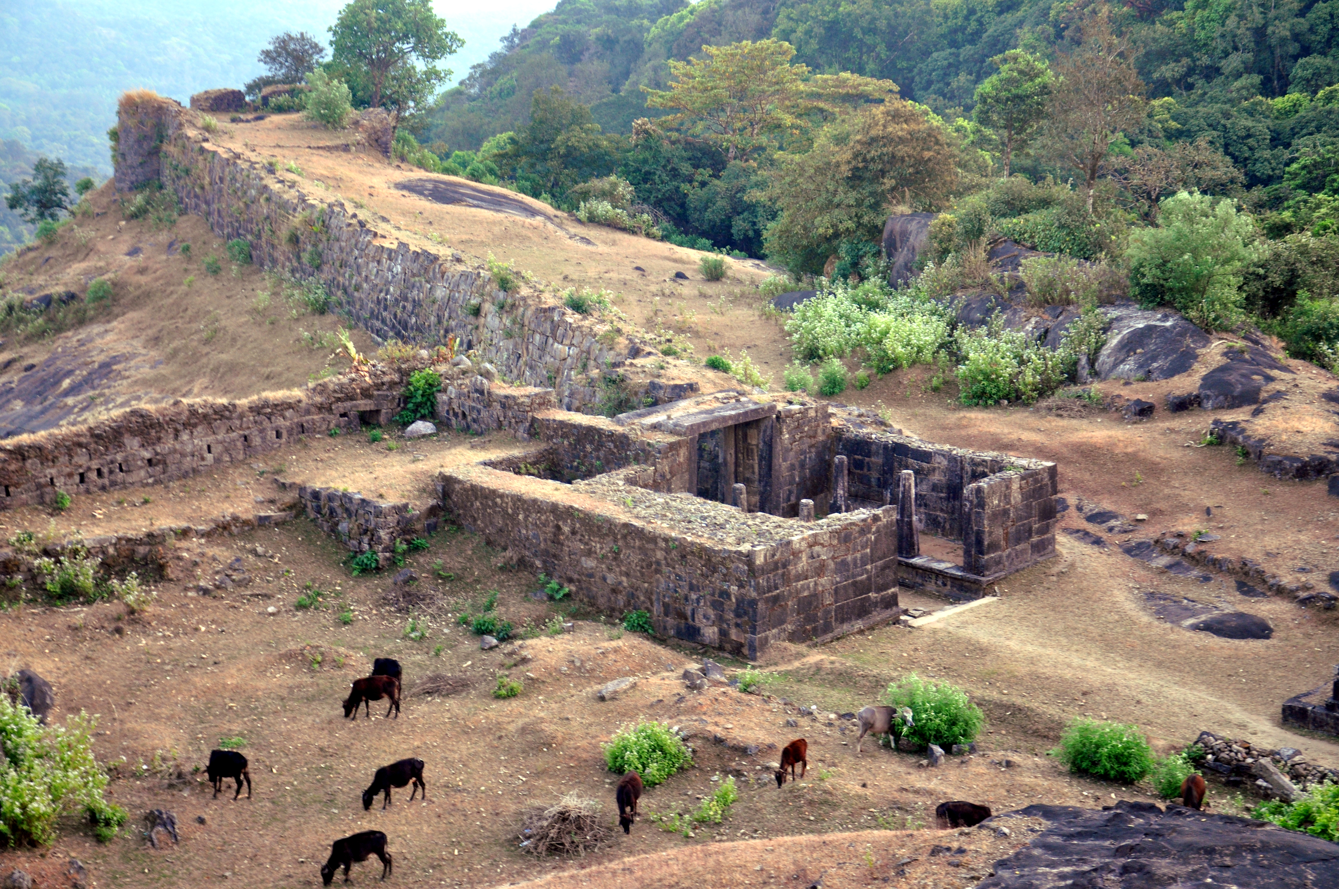 Kavale Durga Fort, Thirthahalli, Shimoga